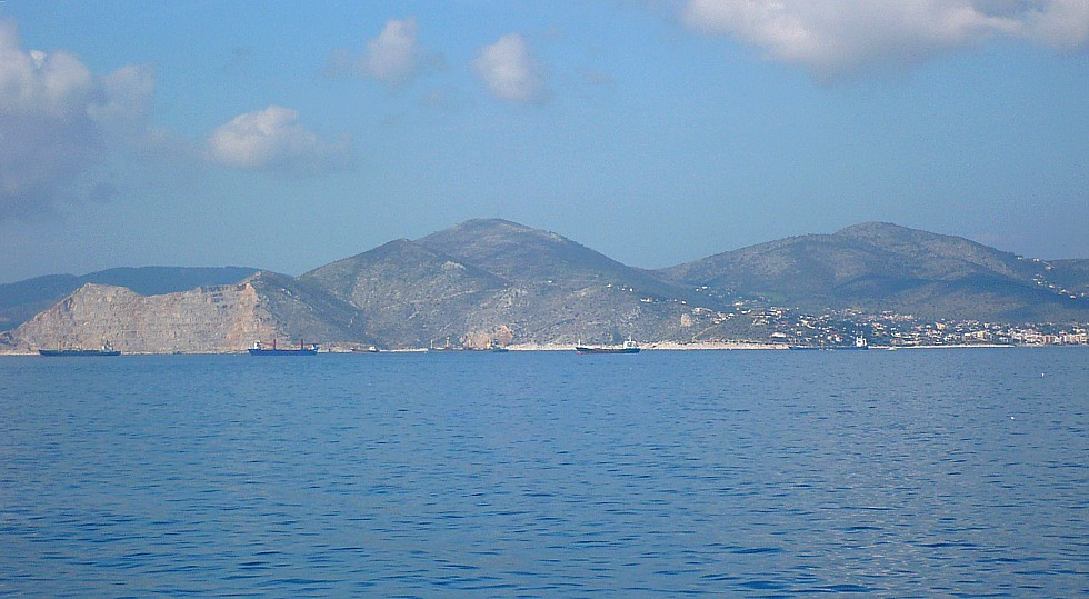 View of Salamis Island, Greece, the file title is erroneous.